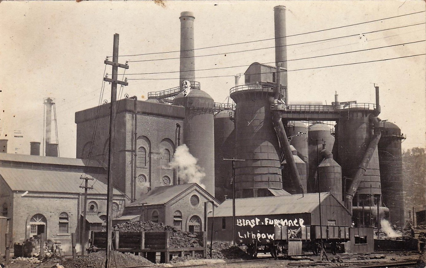 Quotation from the file description on Flickr - Blast furnace established by William Sandford in 1886. Site of the first iron and steel cast in Australia, which continued production until 1928 when the entire industry was moved to Port Kembla.